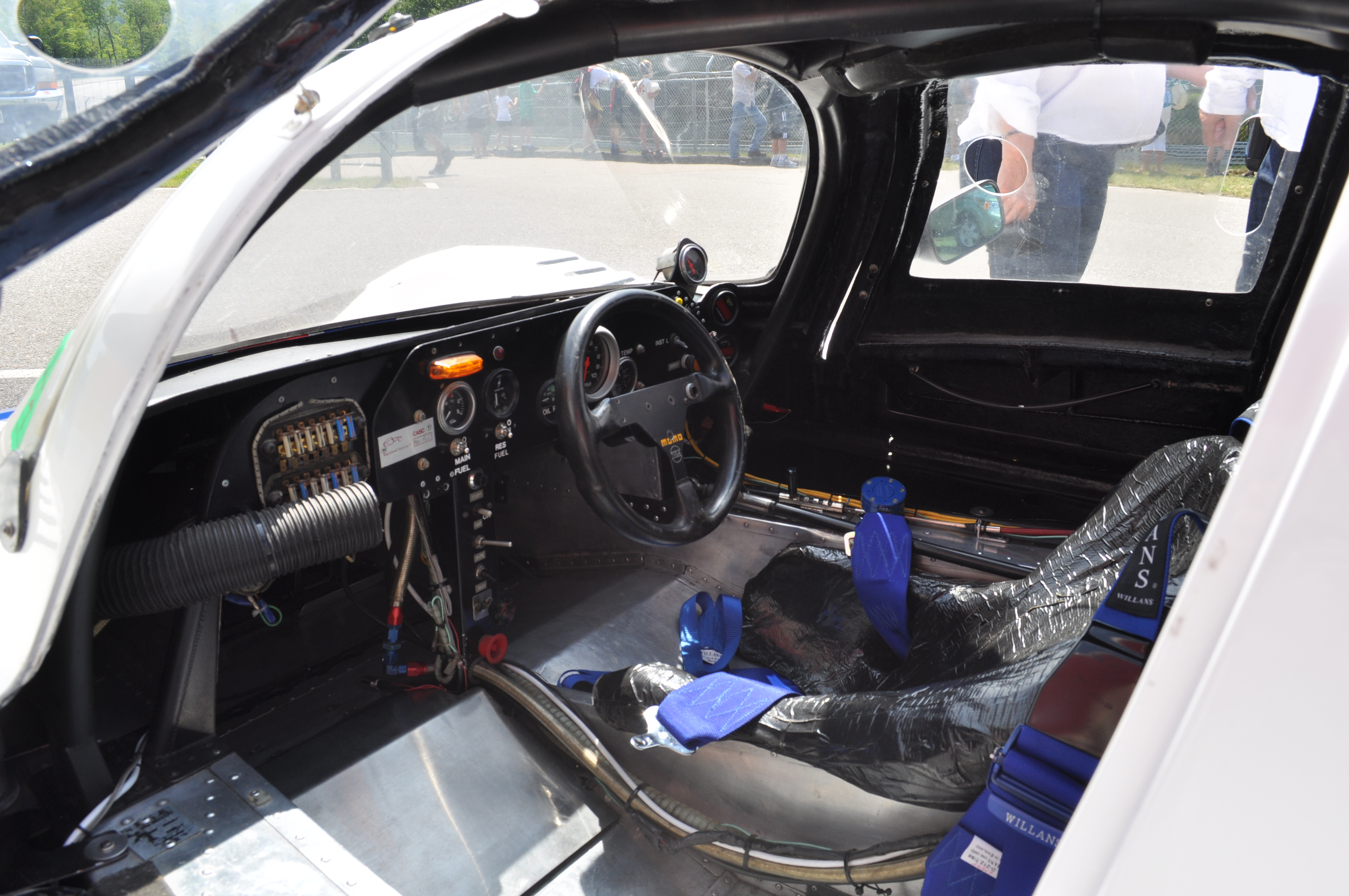 The cockpit of a 1985 Tiga GT sports car, in the paddock at Circuit Mont-Tremblant during the 2010 Legends of Motorsport meeting.